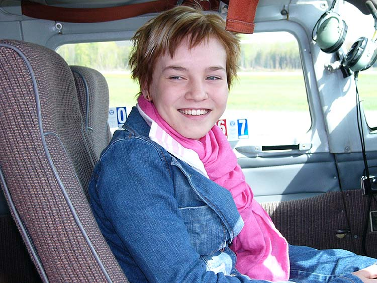 A Young Eagles participant in the cockpit after her flight